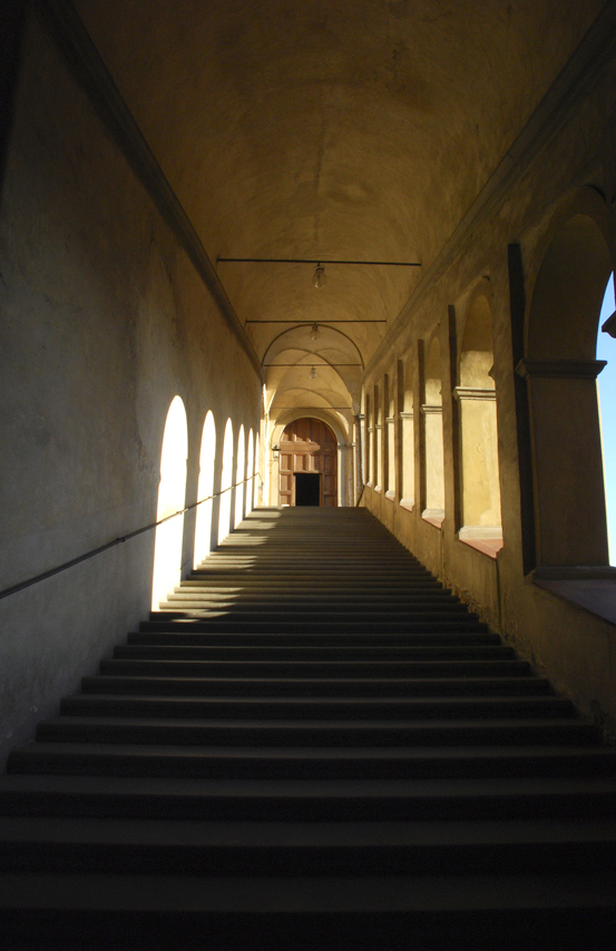 Certosa del Galluzzo, Florence, Italy. Monastery: the entrance stairway (inside).